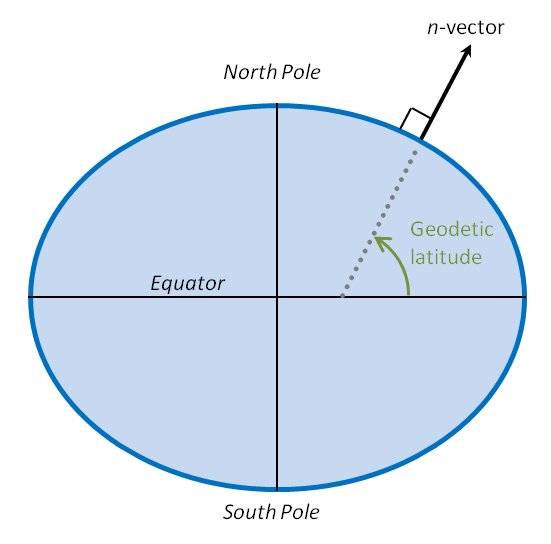 The figure shows n-vector at the reference ellipsoid, and that this vector corresponds to geodetic latitude.